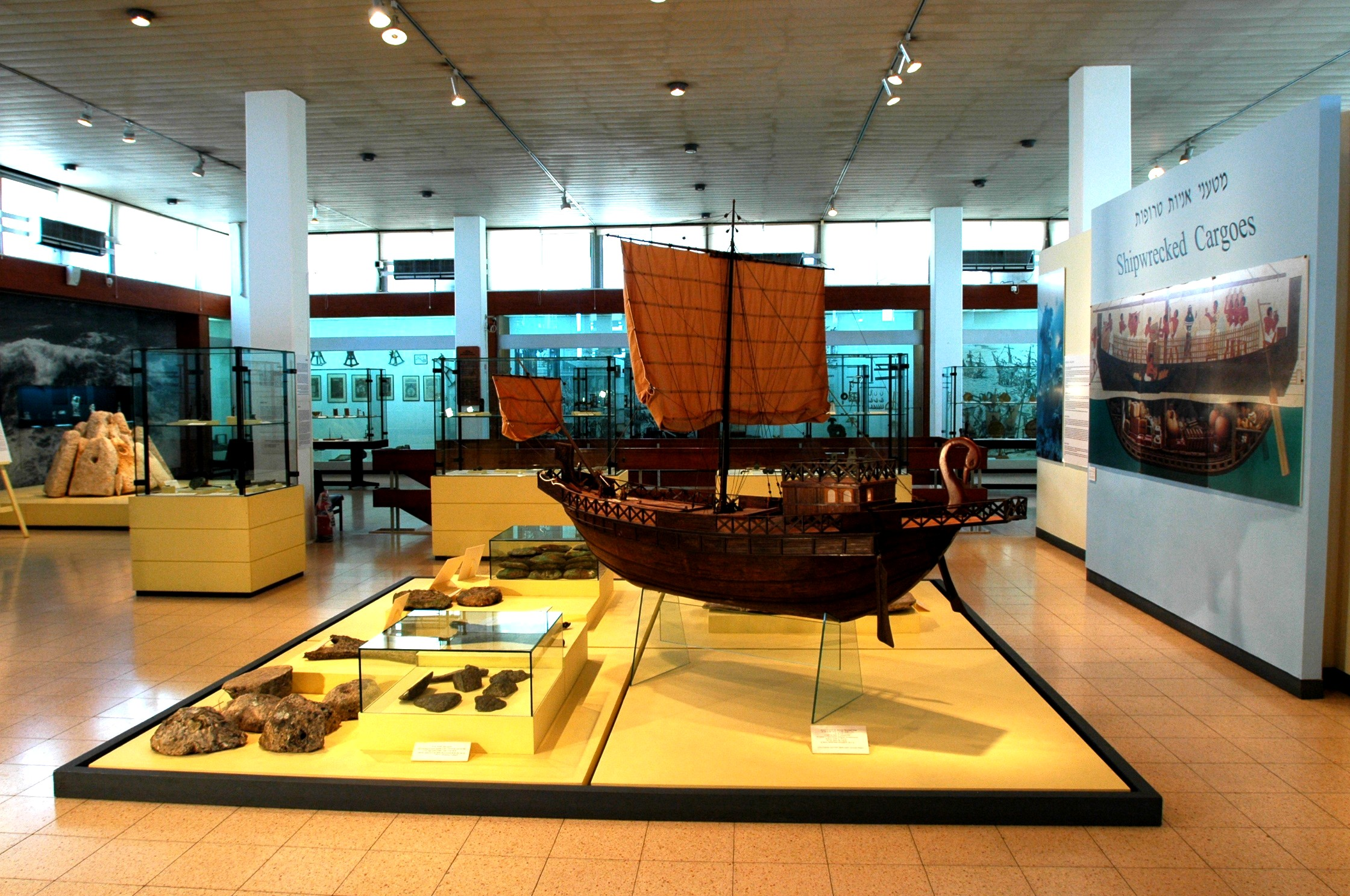 At the Israeli National Maritime Museum, Haifa